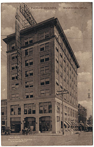 Phoenix Building. Muskogee, Okla.